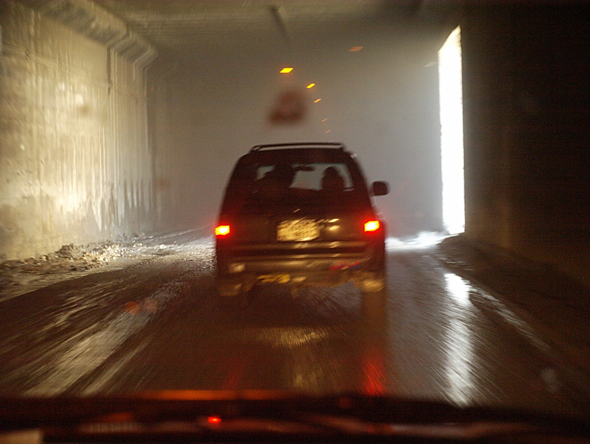 Inside the Salang tunnel, Afganistan